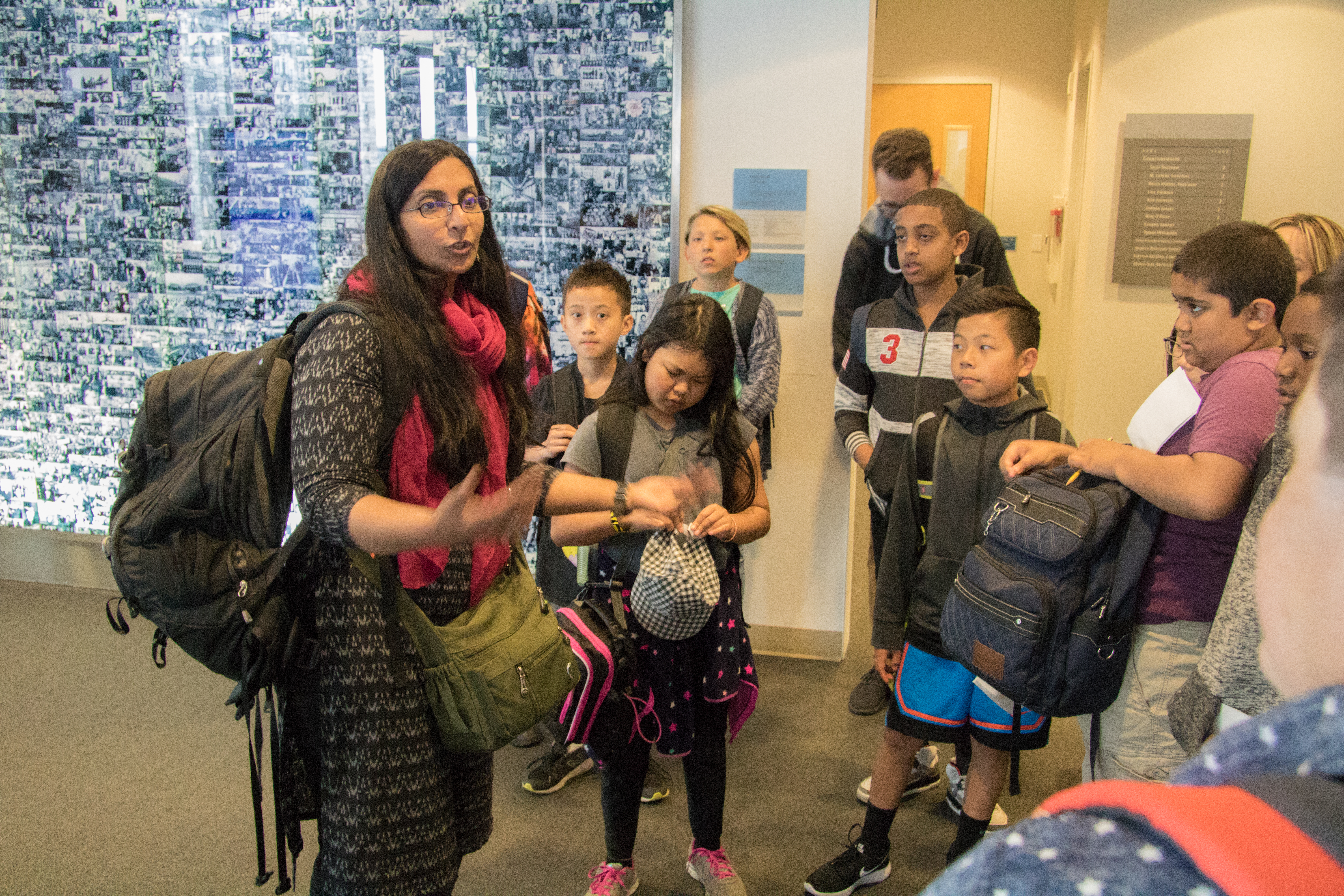 Councilmember Kshama Sawant greets a group of students during a tour of City hall.